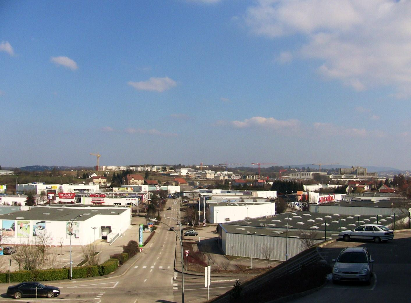 Châteaufarine and Hauts du Chazal sector, in the french) city of Besançon (Doubs).